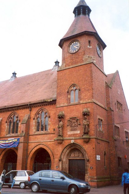 The Market Hall, Sandbach